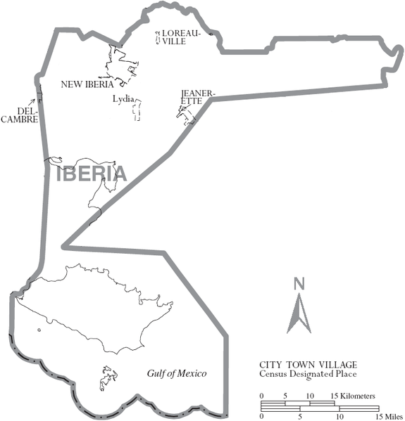 Map of Iberia Parish, Louisiana, United States with municipal boundaries